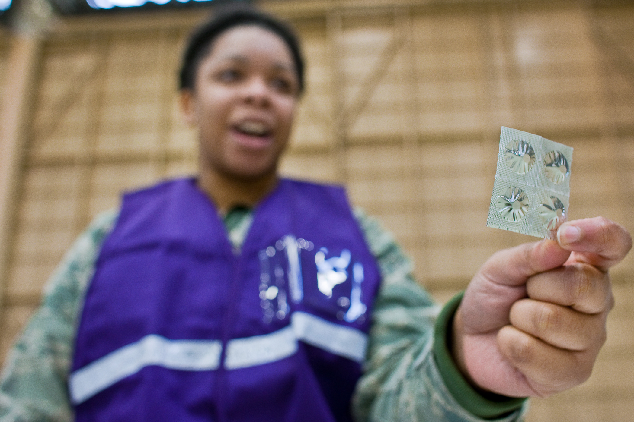 Staff Sgt. Alicia Tucker explains how and when to take potassium iodide tablets March 22, 2011, at Yokota Air Base, Japan. U.S. Pacific Command officials directed distribution of potassium iodide tablets as a precautionary measure. Base officials are stressing there is no indication of increased exposure at Yokota AB. Sergeant Tucker is assigned to the 374th Medical Operations Squadron. (U.S. Air Force photo/Osakabe Yasuo)